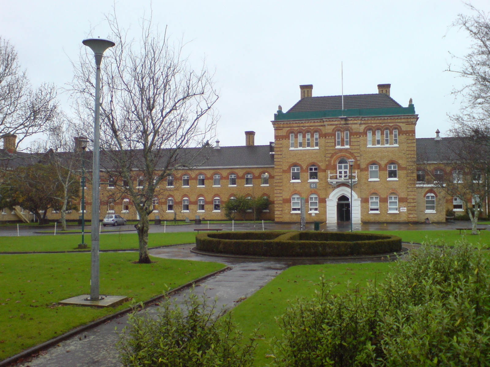 Former Carrington Hospital building of Unitec New Zealand, a tertiary education provider in Auckland City, New Zealand. One of the main buildings on the Carrington Road campus as seen here from the North. New Zealand Historic Places Trust Register number: 96.